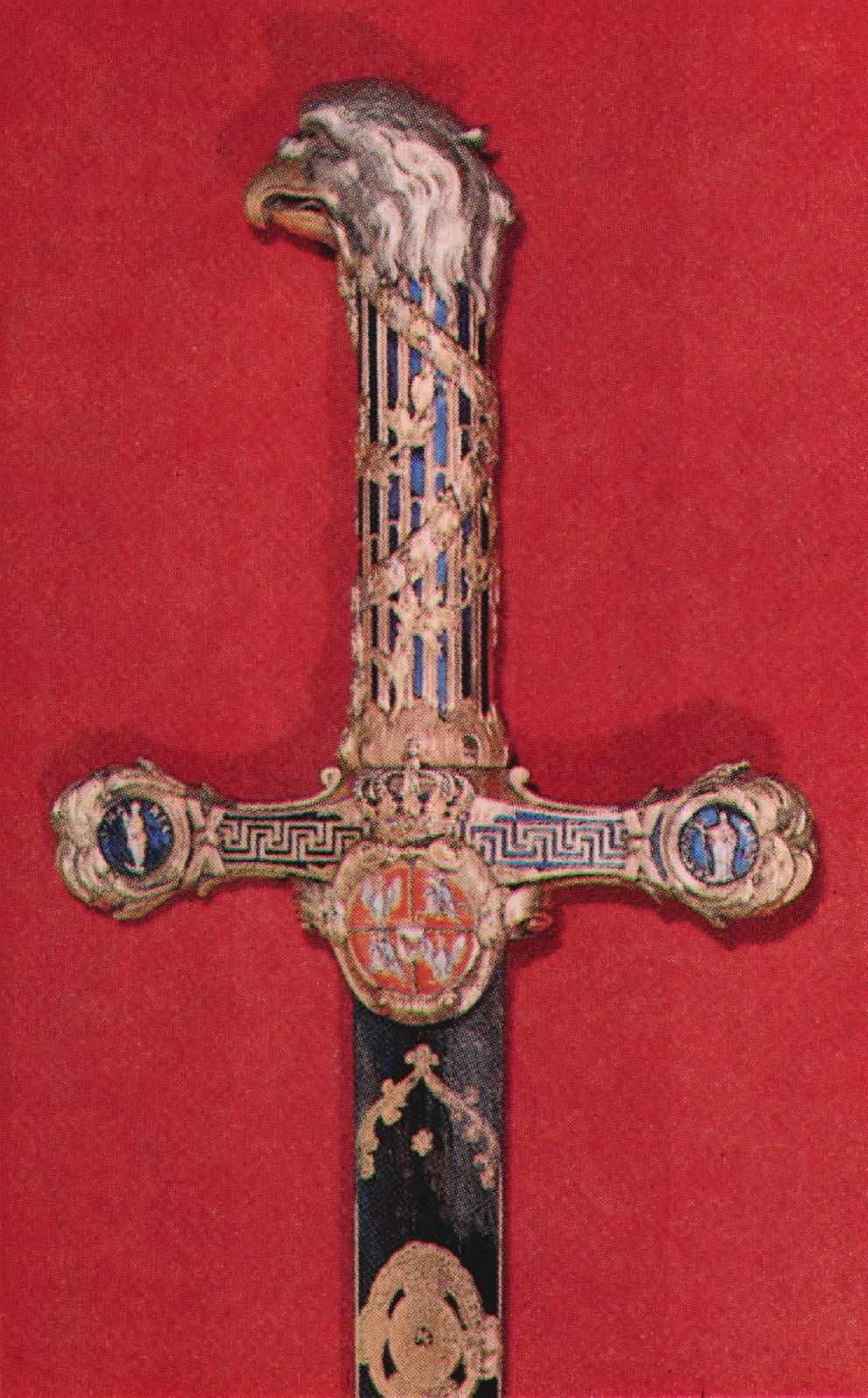 Ceremonial sword of King Stanisław August Poniatowski, made in Warsaw, ca. 1764. Displayed in the Royal Chapel at the Royal Castle in Warsaw.